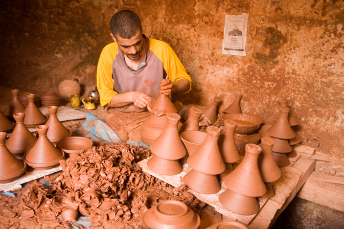 A Moroccan potter making tajines, Moroccan cooking pots.